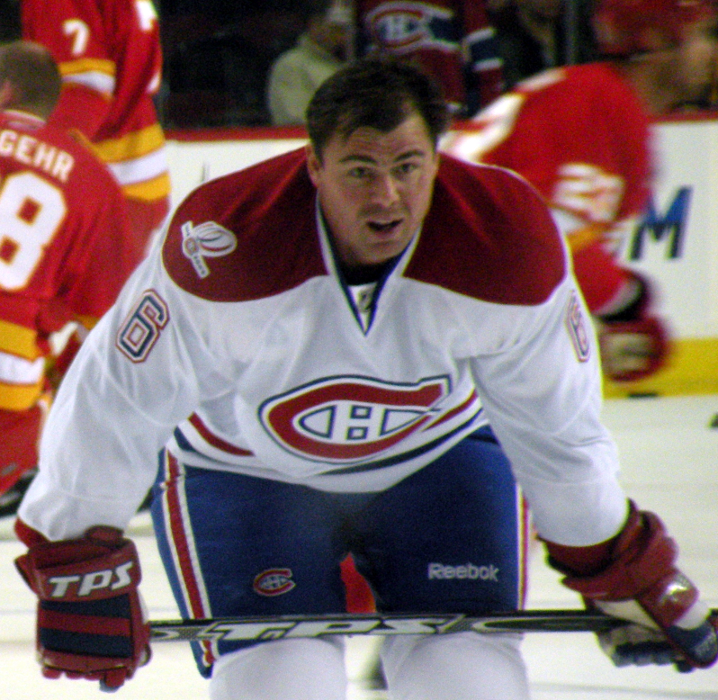 Montreal Canadiens defenceman Jaroslav Spacek during warm-up prior to a National Hockey League game against the Calgary Flames, in Calgary.